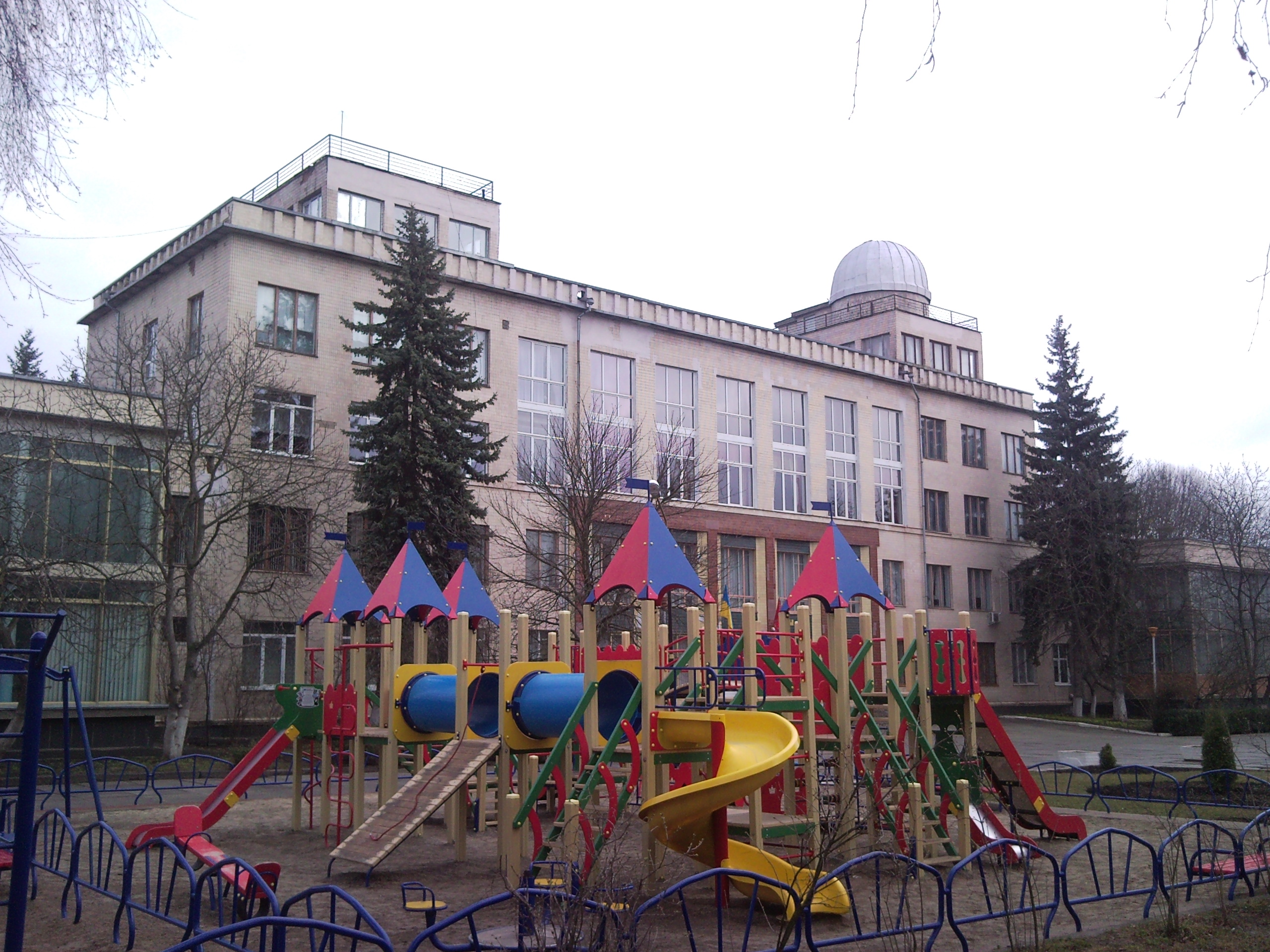 Larisa Ratushnaya Palace of children and youth, 22 Khmelnytske Highway, Vinnytsya